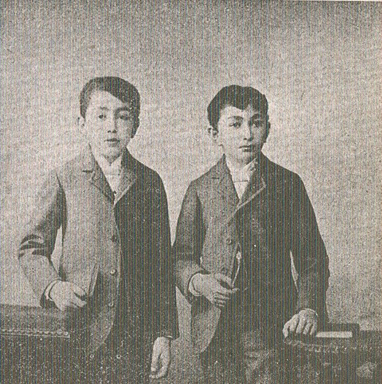 Prens Lutfullah (left) and Prens Sabahaddin brothers in their youth